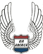 Emblem of "Air America"